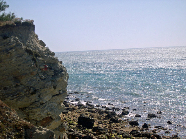 Cliff face, Binnel Bay Stratified rock face, with scree on beach.